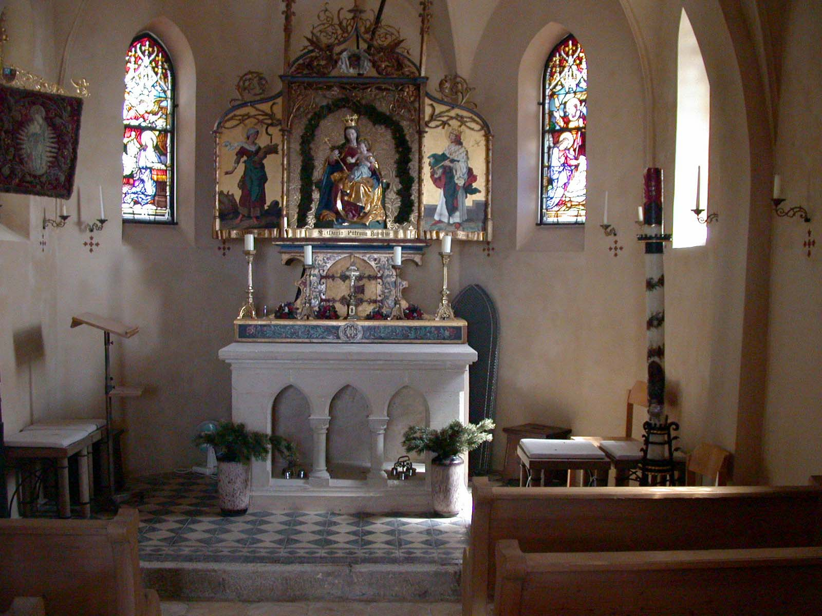 Interior of the church on top of Wendelstein (mountain)/Germany This is a photograph of an architectural monument.